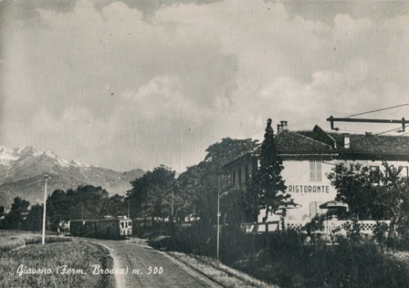 Giaveno, Brossa tram stop